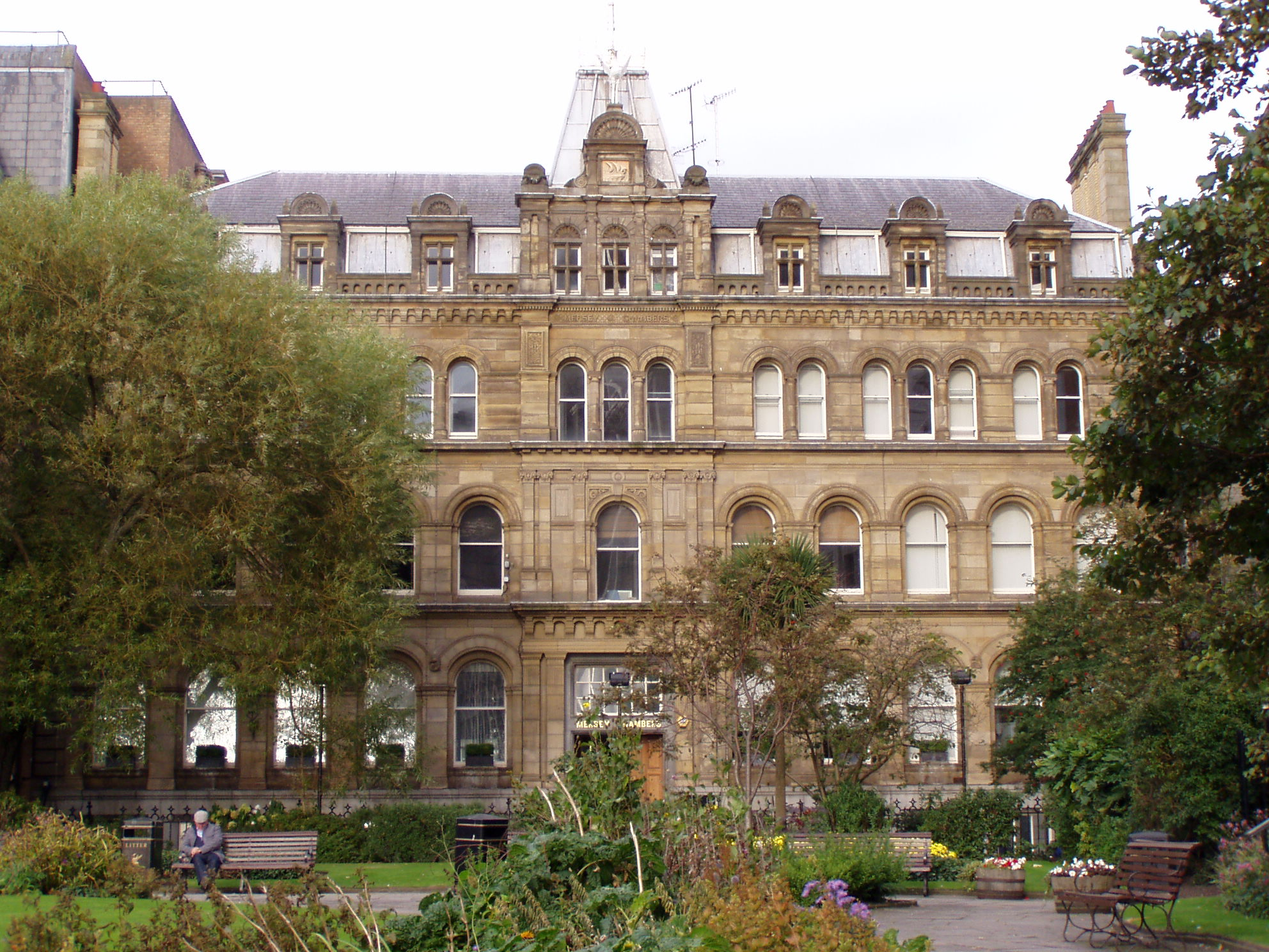 Mersey Chambers from Church